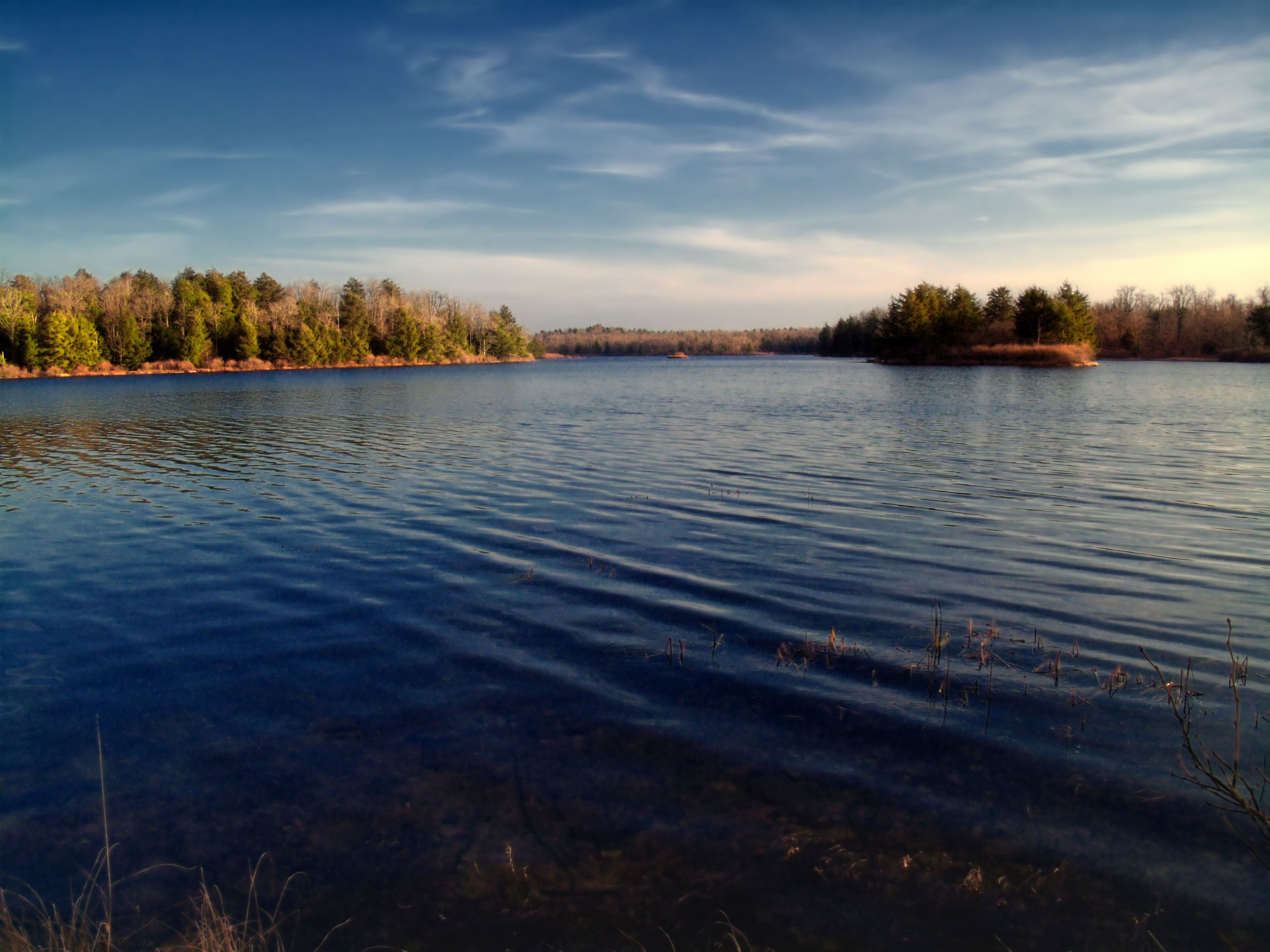 Lake Jean, Ricketts Glen State Park, Luzerne and Sullivan Counties, Pennsylvania, USA.